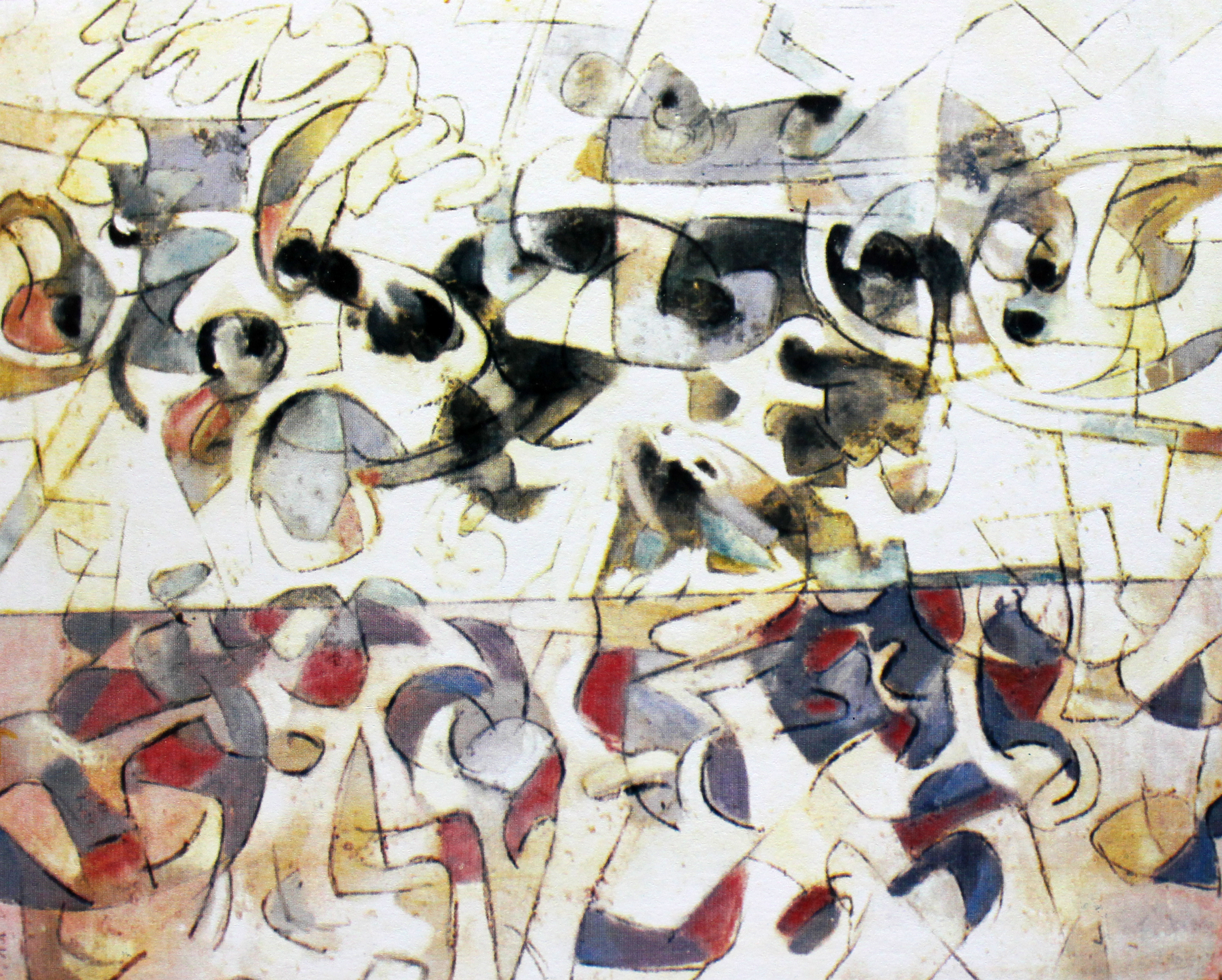 This is under the ownership of Kosova National Art Gallery. We have been given the rights to freely use the data available in its published book, Kosovo Contemporary Art